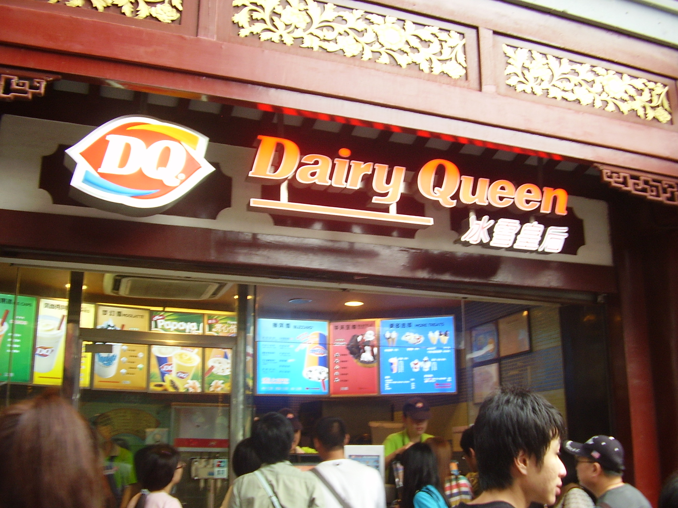 Dairy Queen in Shanghai